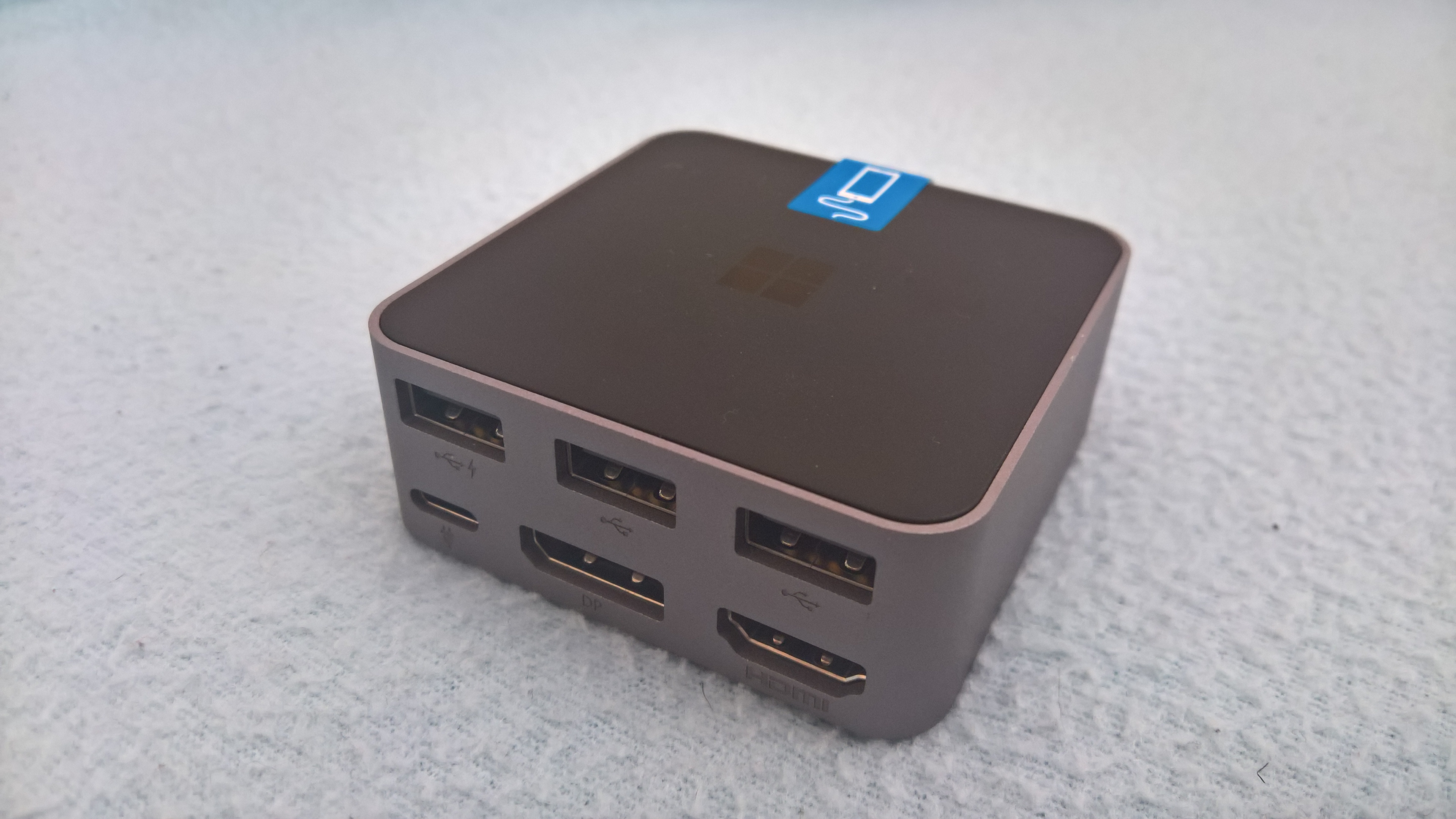 A Microsoft Display Dock to enable continuum on Microsoft Lumia 950 X and Microsoft Lumia 950 devices.